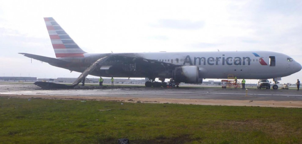 American Airlines Flight 383（N345AN）wreckage3